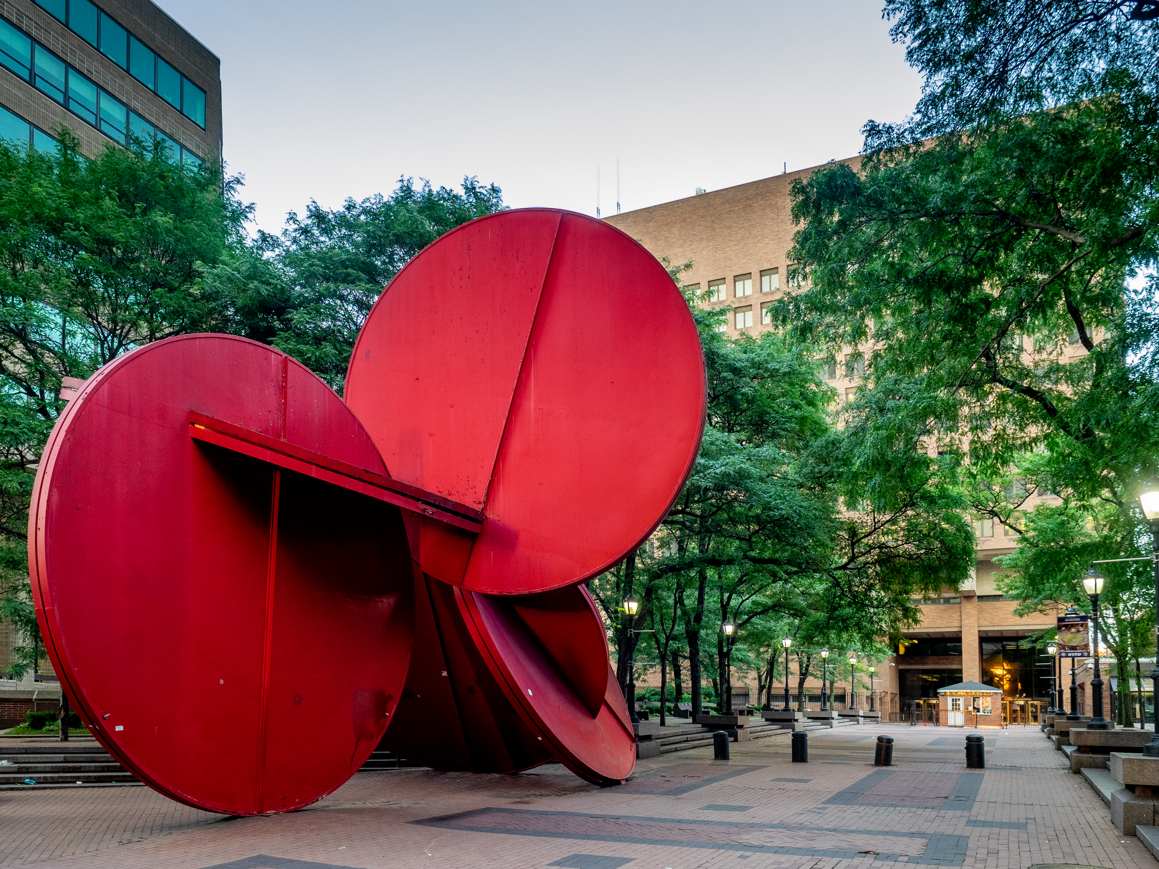 Civic Center, Manhattan, NYC